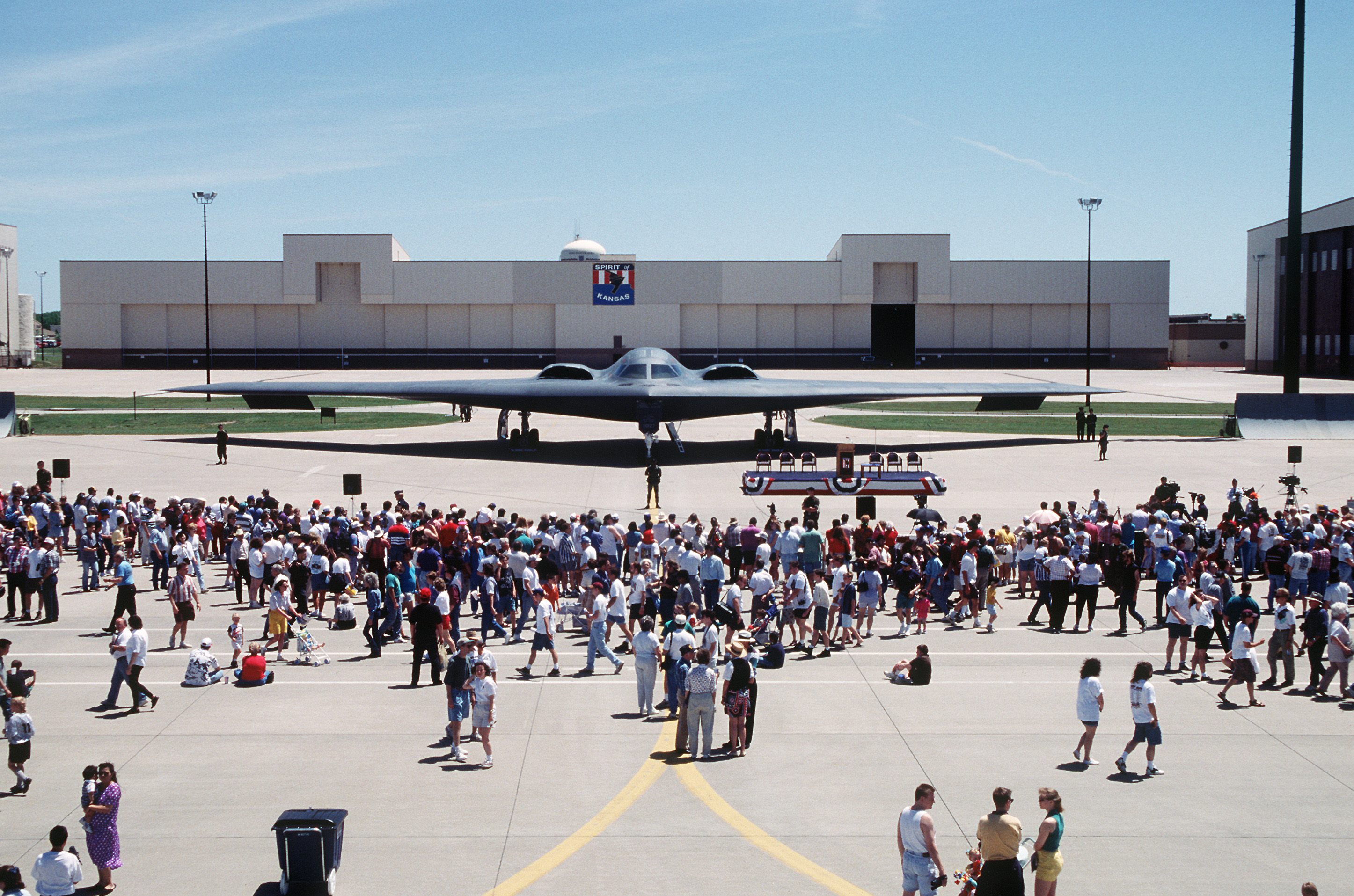 A static display of the B-2, "Spirit of Kansas", as it is viewed by hundreds of military and civilian personnel. Photo ID: F3207-SPT-95-000004